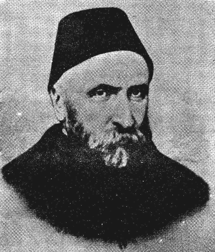 Ahmed Hamdi Pasha (1826-1885) Ottoman Grand Vizier during the reign of Abdulhamid II.